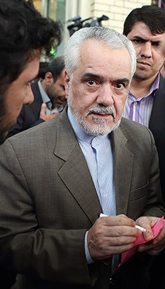 Mohammad Reza Rahimi, former Iranian vice president during a court season